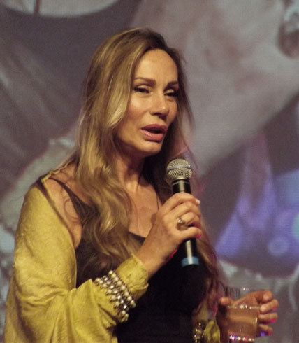 Actress Virginia Hey at FedCon 2012 in Düsseldorf, Germany